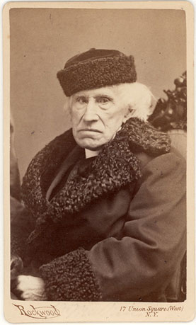 William Augustus Muhlenberg (1796-1877)